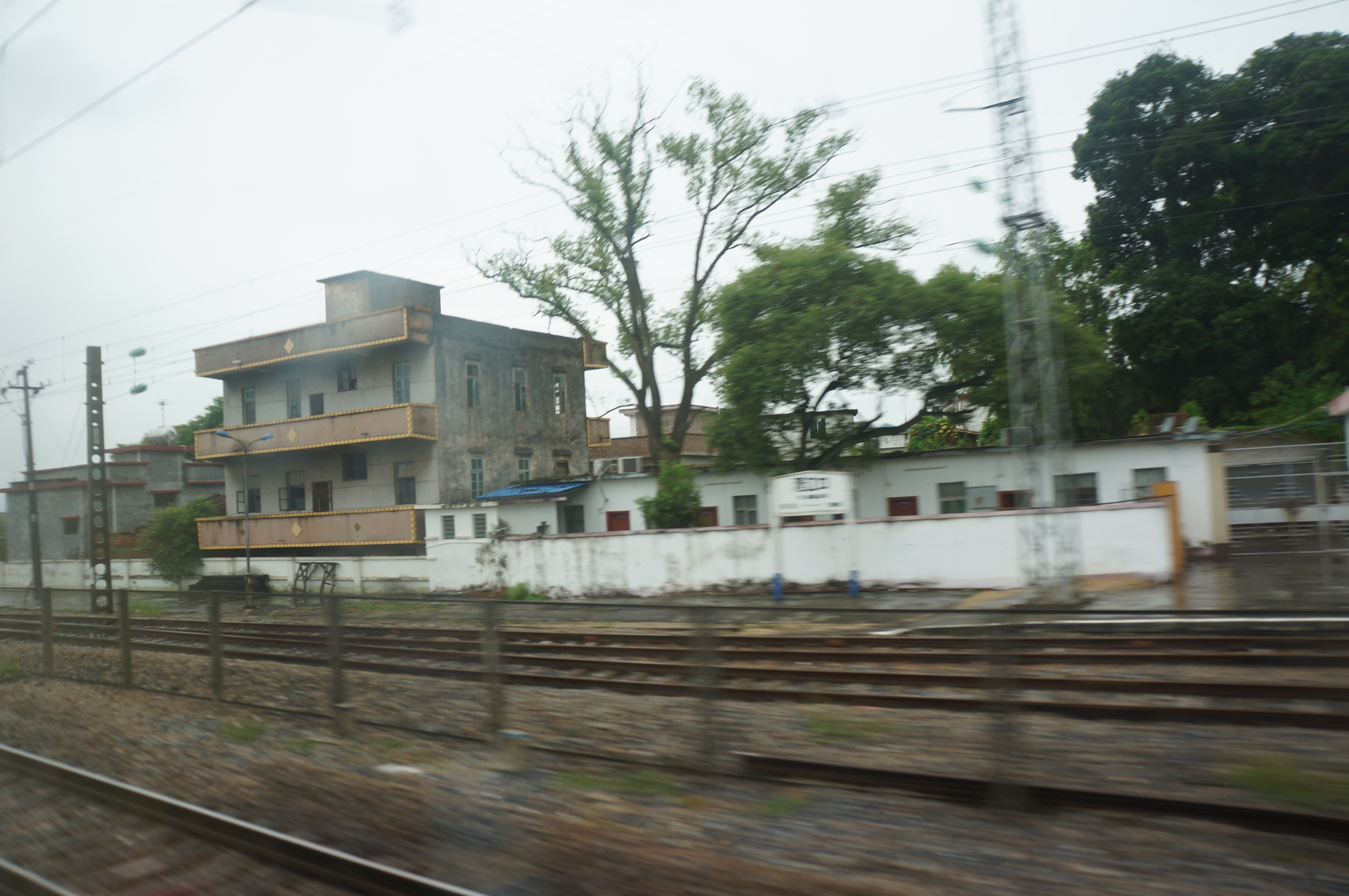 201609 Z99 passes Pajiangkou Station潖江口